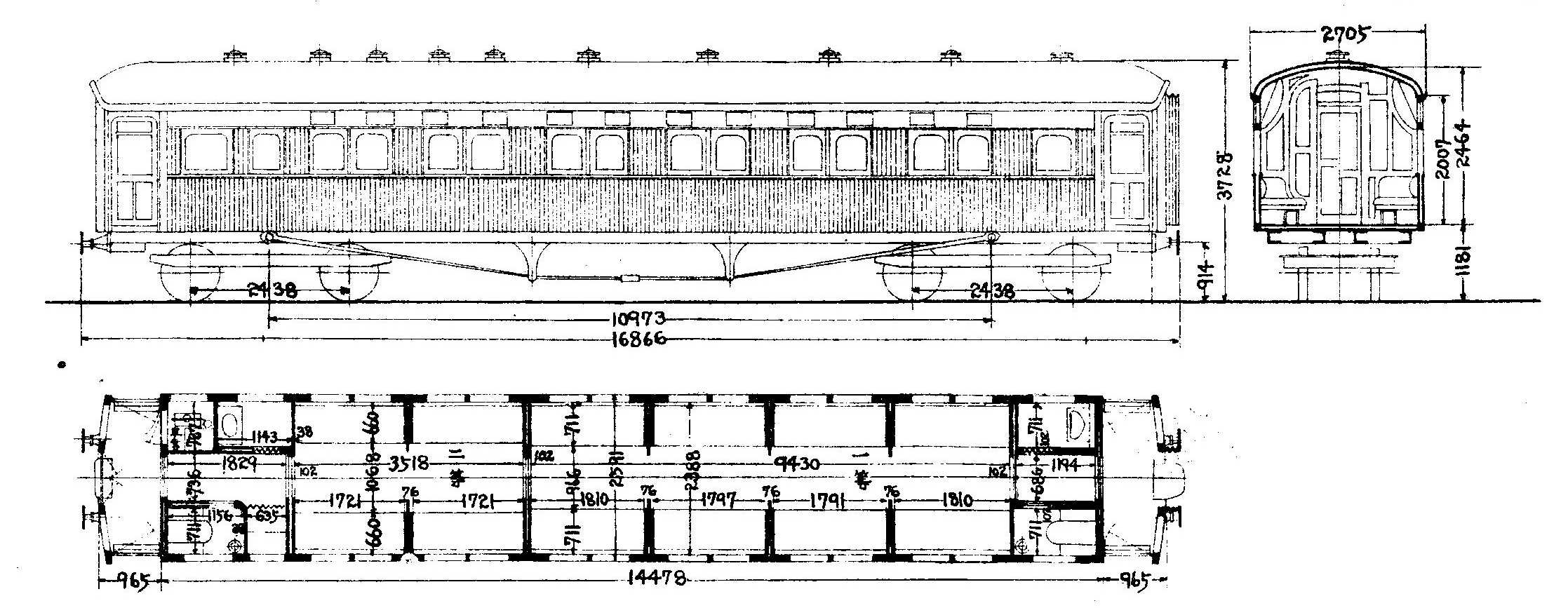 Type drawing of JGR's Ironefu5055 type passenger car